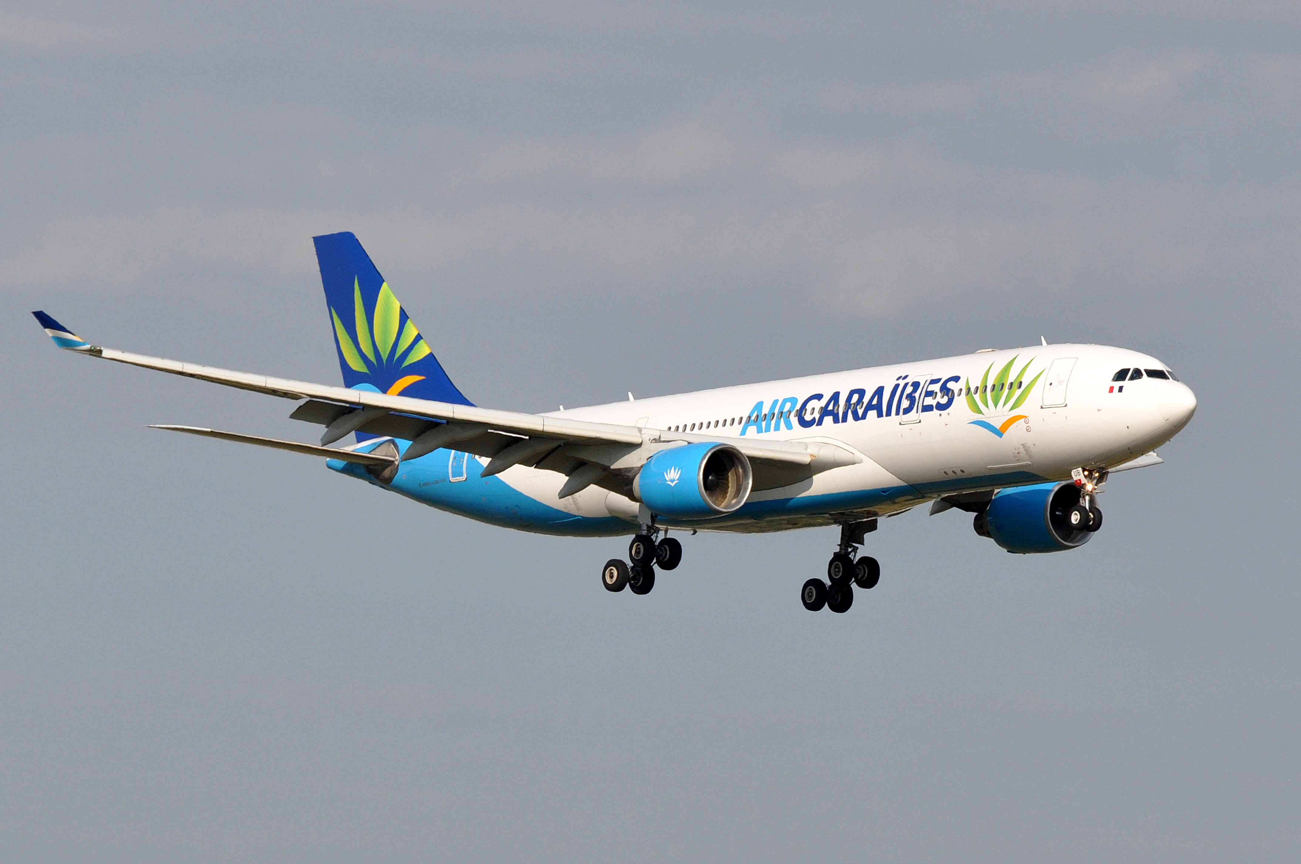 MSN 343 A330-223 / A330 / A330-200 AIR CARAIBES ORY AIRPORT EX SWISSAIR ANS SWISS INTERNATIONAL AIR LINES AS HB-IQO / ATLAS JET AND SAUDI ARABIAN AIRLINES AS TC-ETP / RYAN INT AS N772RD / AIR ATLANTA ICELANDIC AS TF-EAA